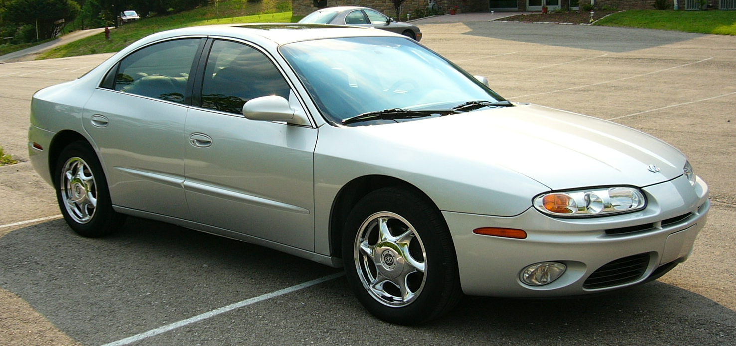 Second generation Oldsmobile Aurora. (C) 2004 Matthew Bowen